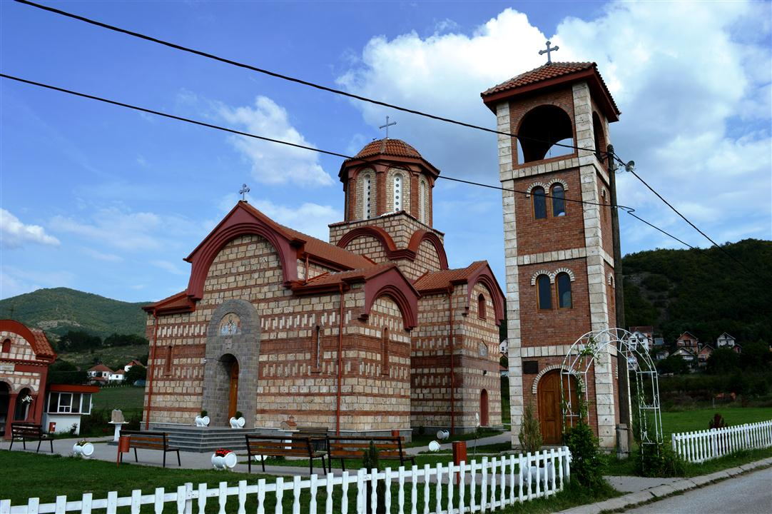 Raska Municipality - Supnje